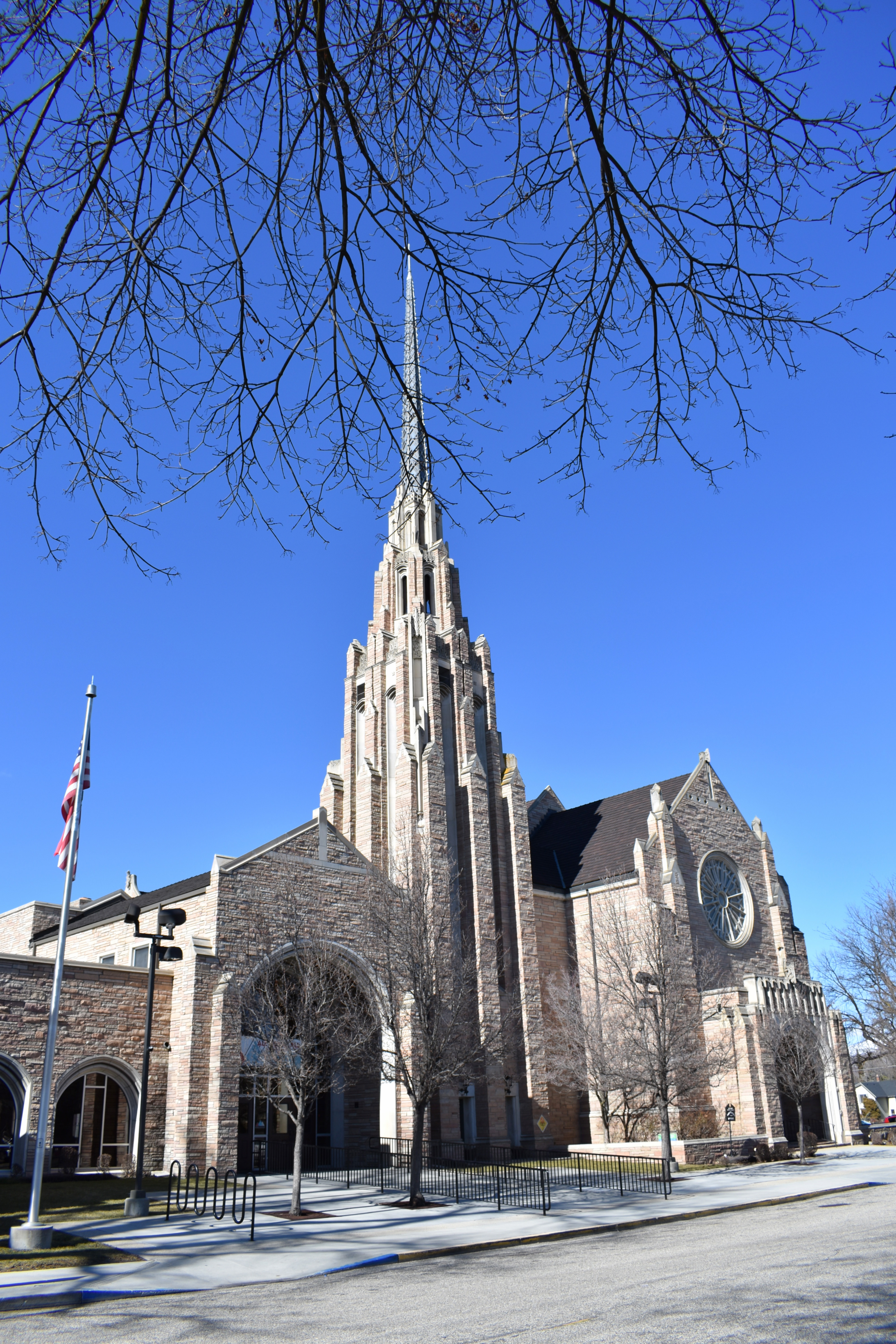 The United Methodist Cathedral of the Rockies in Boise, Idaho, was constructed in 1960.